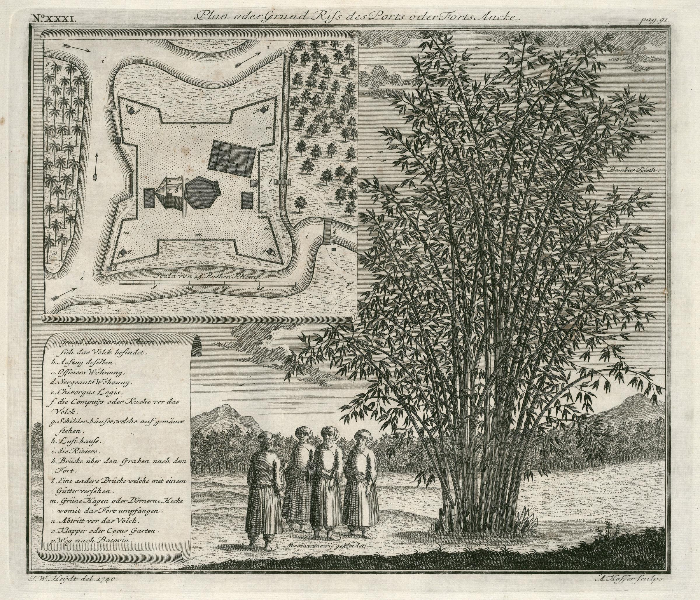 Map of Fort Anké. Plan oder Grund-Riss des Ports oder Forts Ancke. Top left: No: XXXI. Top right: pag. 91.. Key: a. Grund des Steinern Thurn worin sich das Volck befindet. / b. Aufzug deselben. / Officiers Wohnung. / d. Sergeants Wohnung. / e. Chirorgus Logis. / f. die Compuijs oder Kuche vor das Volck. / g. Schilder-häufer, welche auf gemäuer stehen. / h. Luft-hauss. / i. die Riviere. / k. Brücle über den Graben nach dem Fort. / l. Eine andere Brücke welche mit einem Gütter versehen. / m. Grüne Hagen oder Dörnerne Hecke womit das Fort umpfangen. / n. Abtritt vor das Volck. / o. Klapper oder Cocus Garten. / p. Weg nach Batavia.. Bottom centre, alongside the figures: Mooren wie sie gekleidet. Top right, next to the plant: Bambus Rieth..